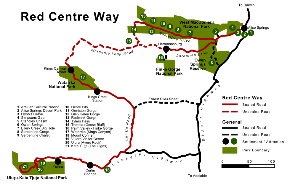 Map of the Red Centre Way in the Australian Northern Territory, including surrounding attractions, settlements and major non-RCW roads. Based on the map sign at the intersection of Stuart and Lasseter Highways. This map was created in SVG format using Inkscape and the original files exist, but the Wikimedia software doesn't render it correct so I uploaded the PNG only.